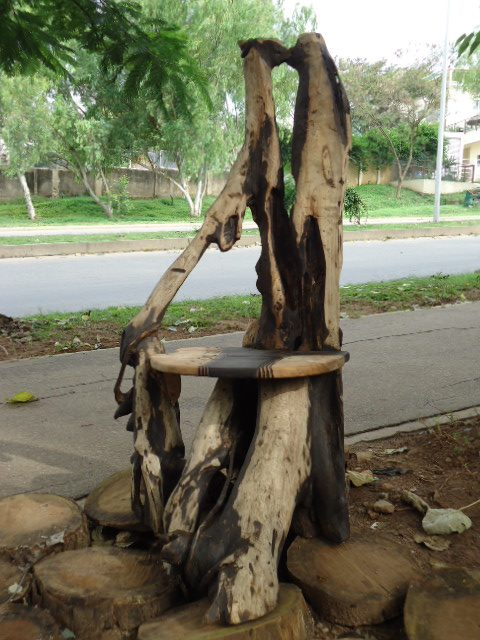 Material - Wood. Year 2010.